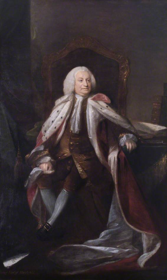 Portrait of George Parker, 2nd Earl of Macclesfield (c.1695-1764)